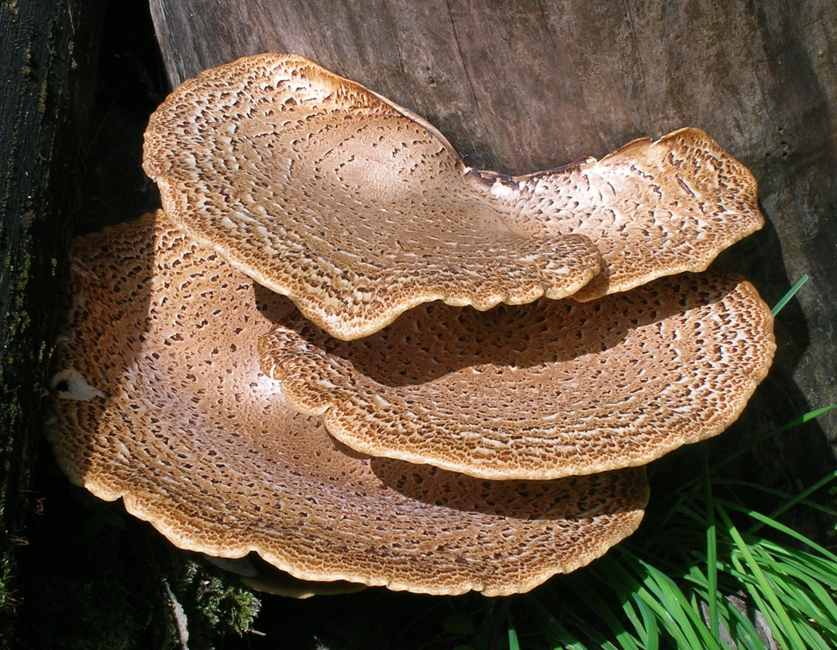 Dryad's Saddle, Hessilhead, Scotland.